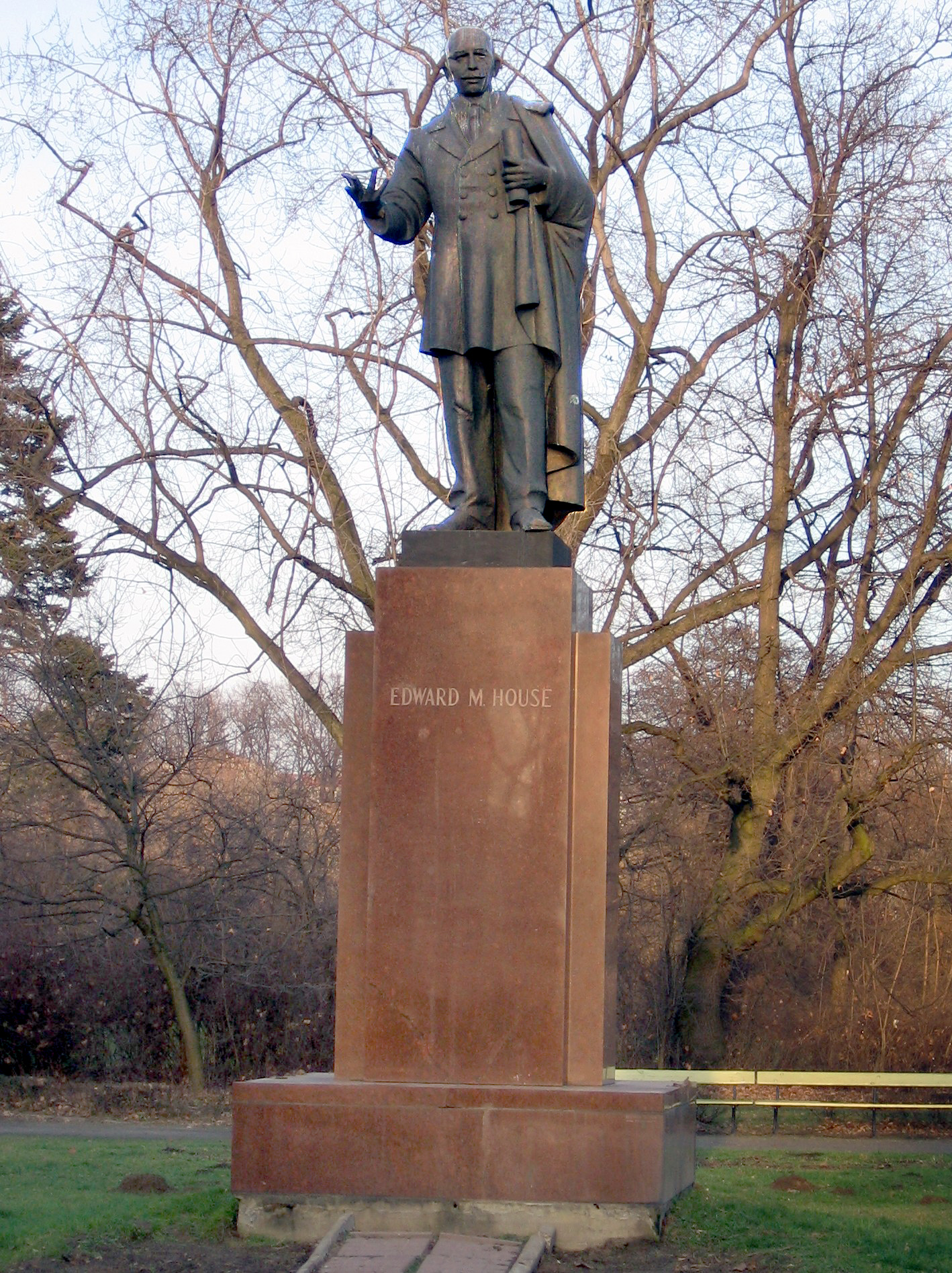 Edward Mandell House Monument, Skaryszewski Park, Warsaw, Poland